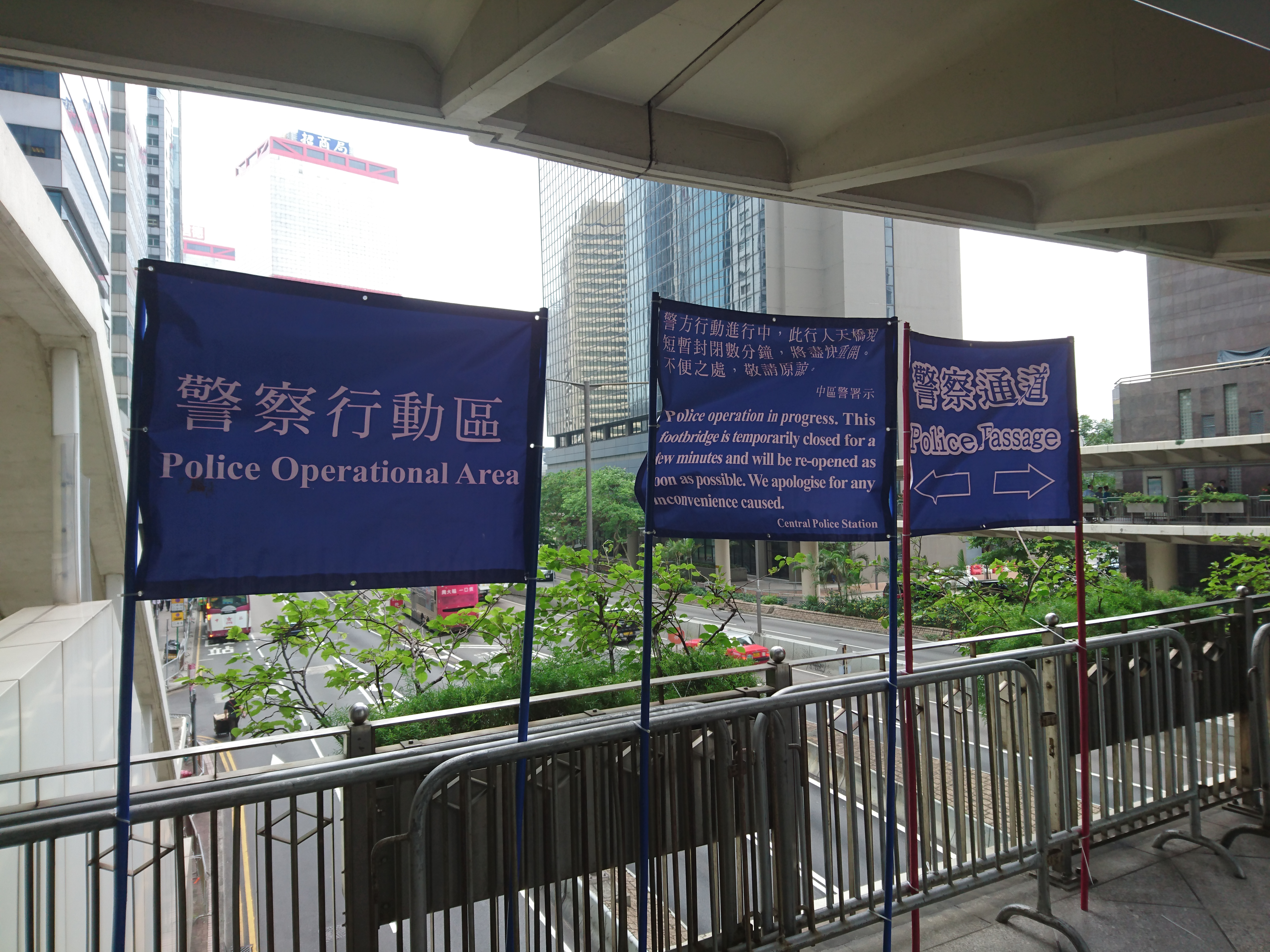 Police Banners on a Footbridge in Central during Zhang Dejiang visit (2)